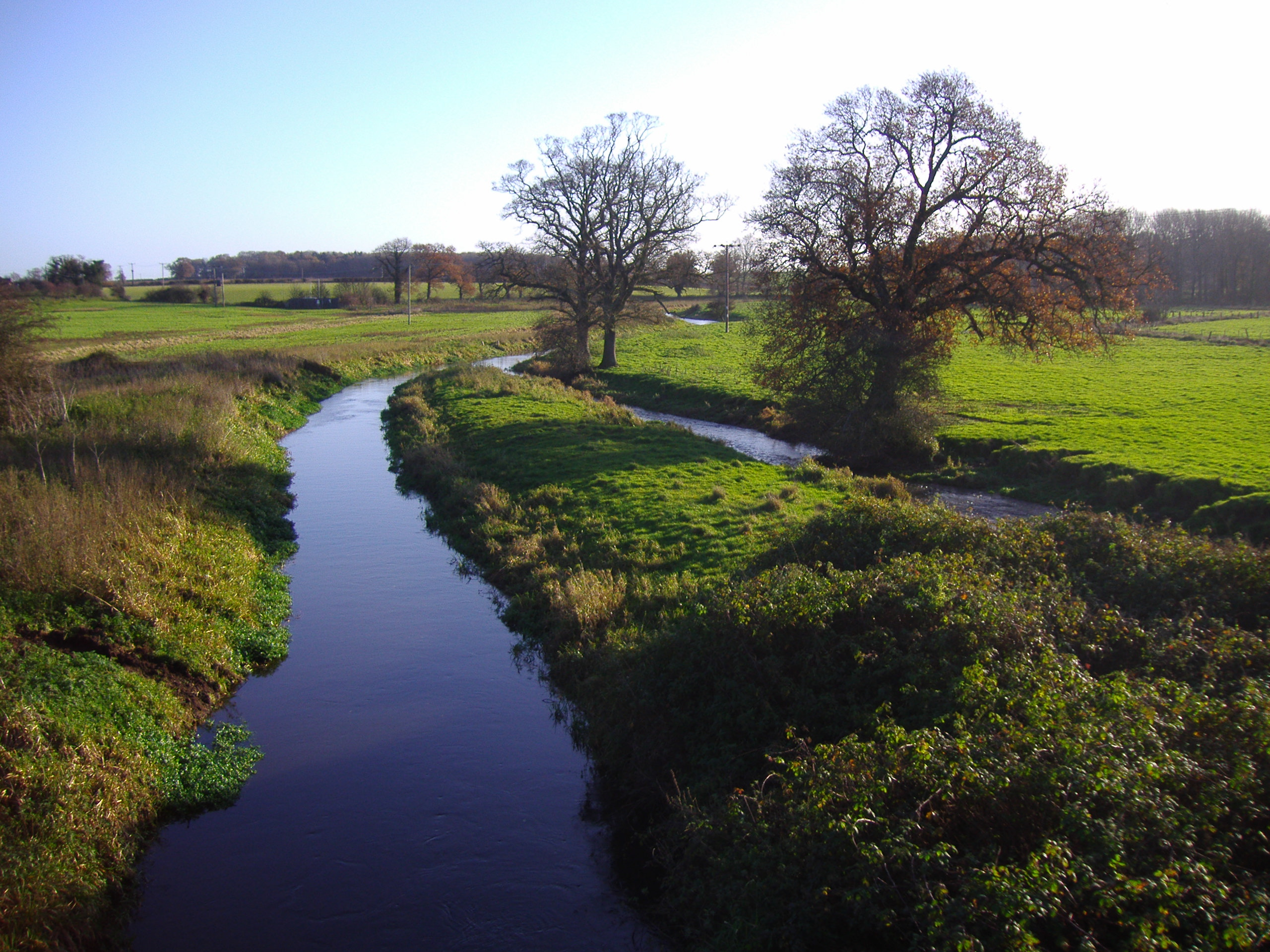 A Digital Photograph of the River Bure at Aylsham December 2006 By M Hobbs